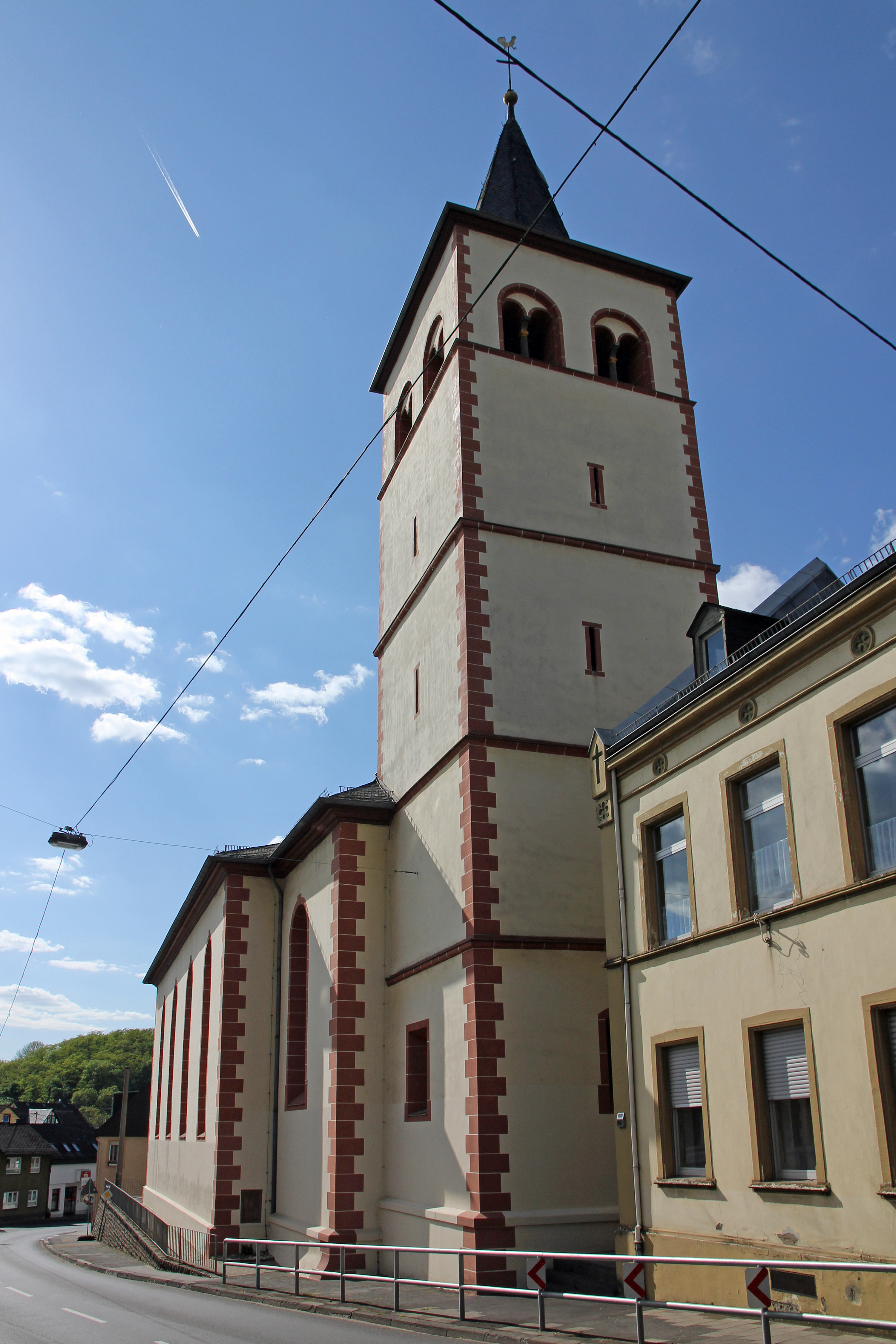 St. Pankratius church in Koblenz